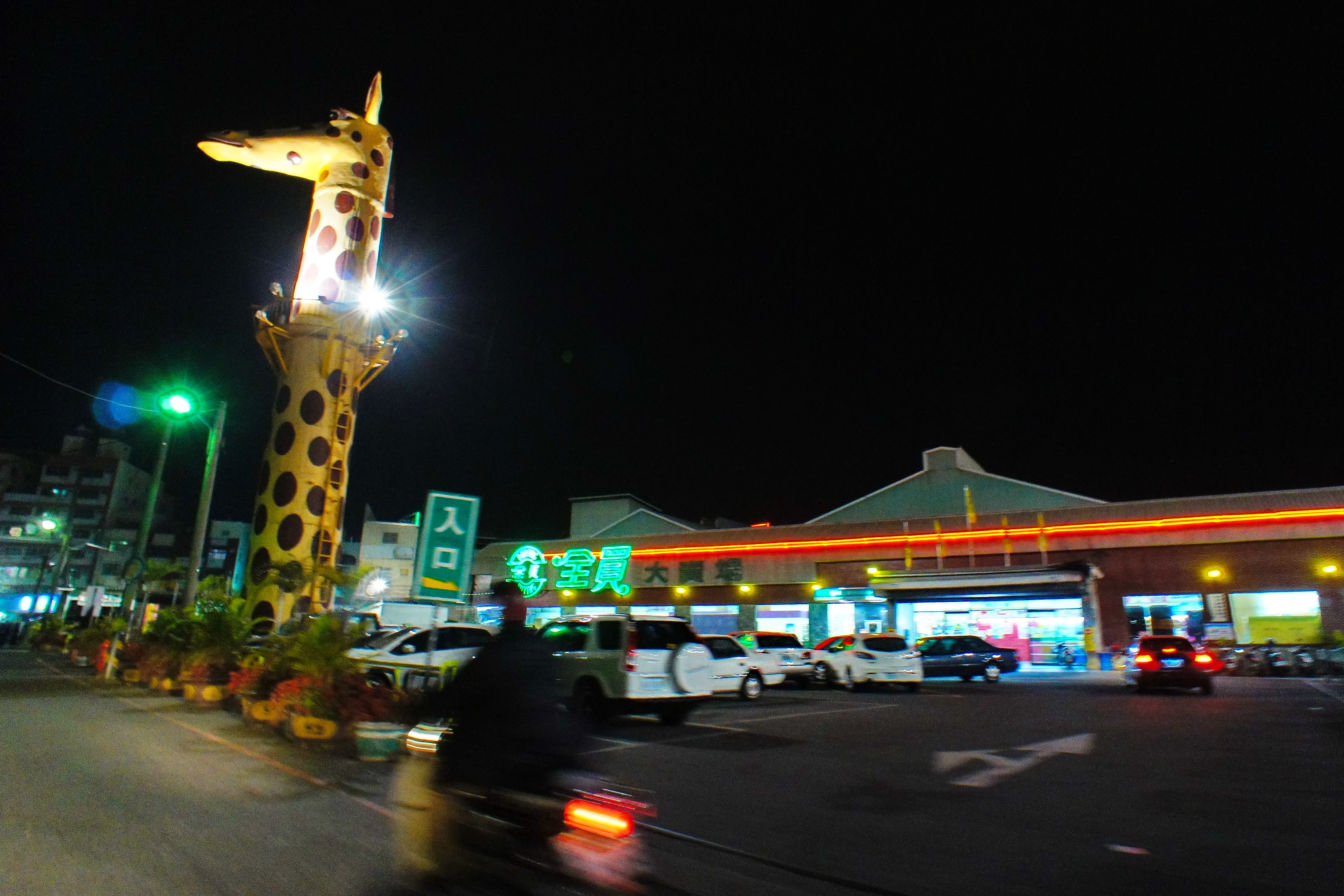 Buying Mart, Chiayi City, Taiwan.